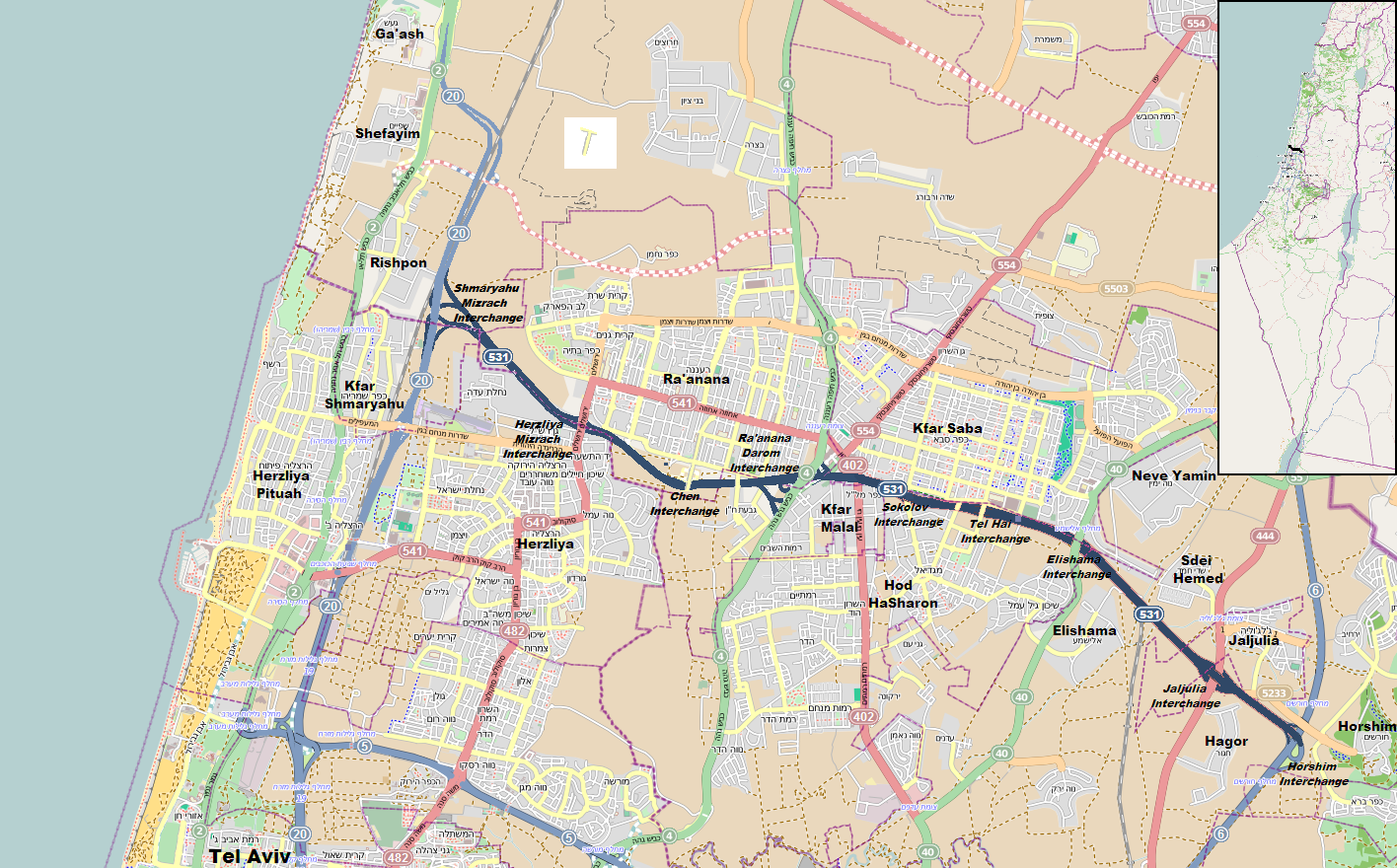 Israel Route 531, highlighted in dark blue.